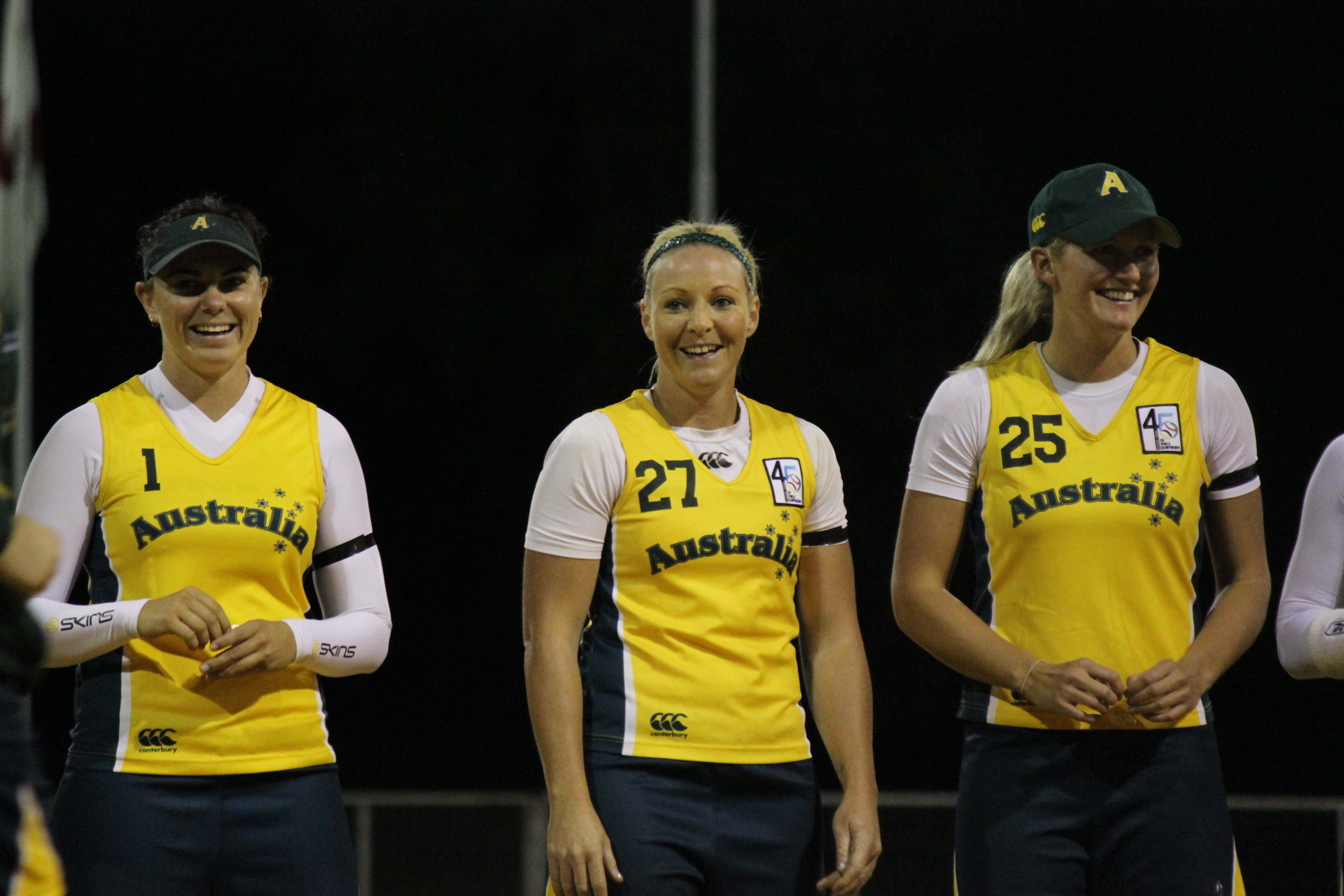 The second game on 21 March 2012 between Japan and Australia at the Hawker International Softball Centre in Canberra. no 25 Chelsea Forkin. no 27 Jodie Bowering. no 1 Jade Wall.